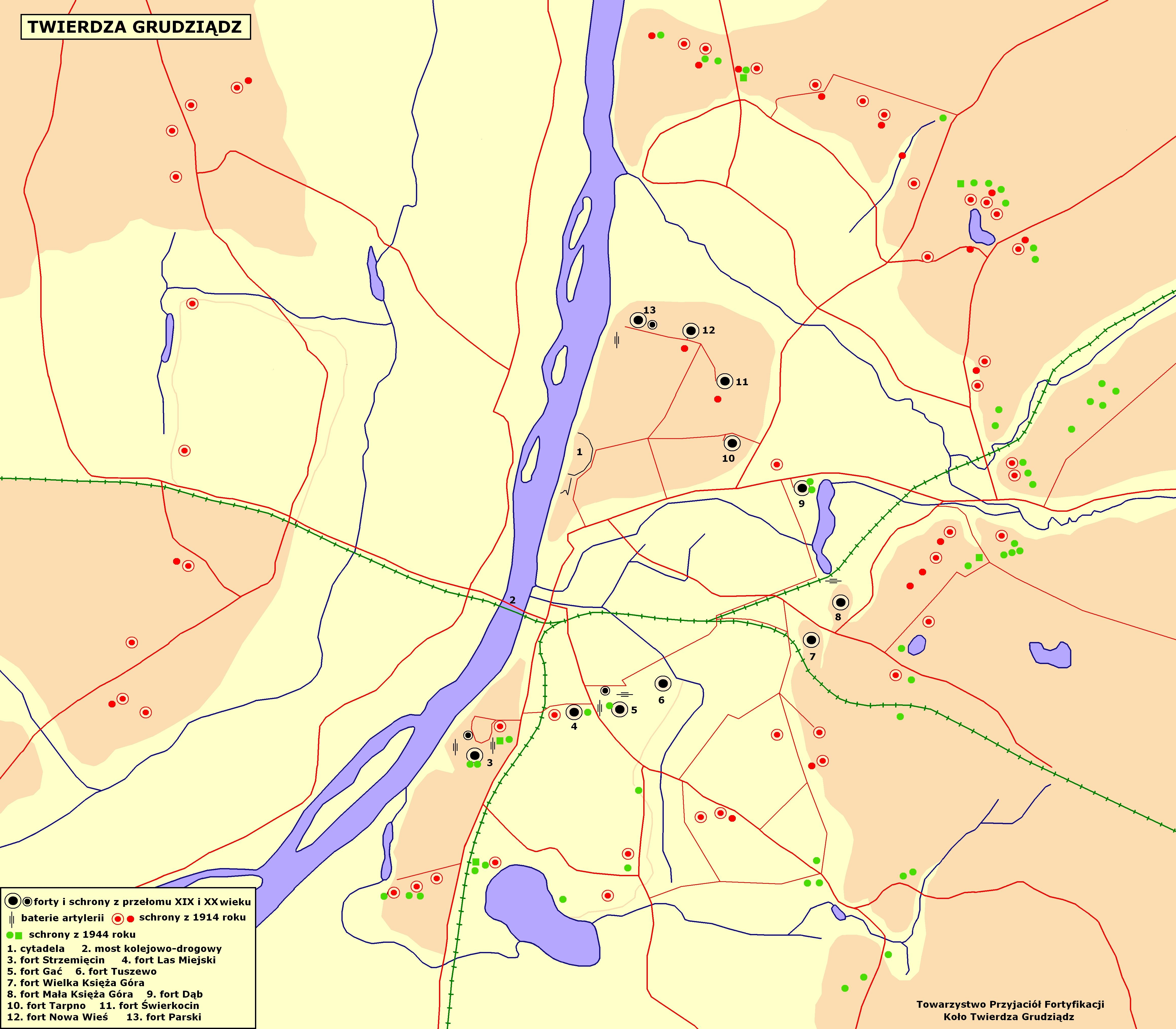 Plan of fortifications near Grudziądz